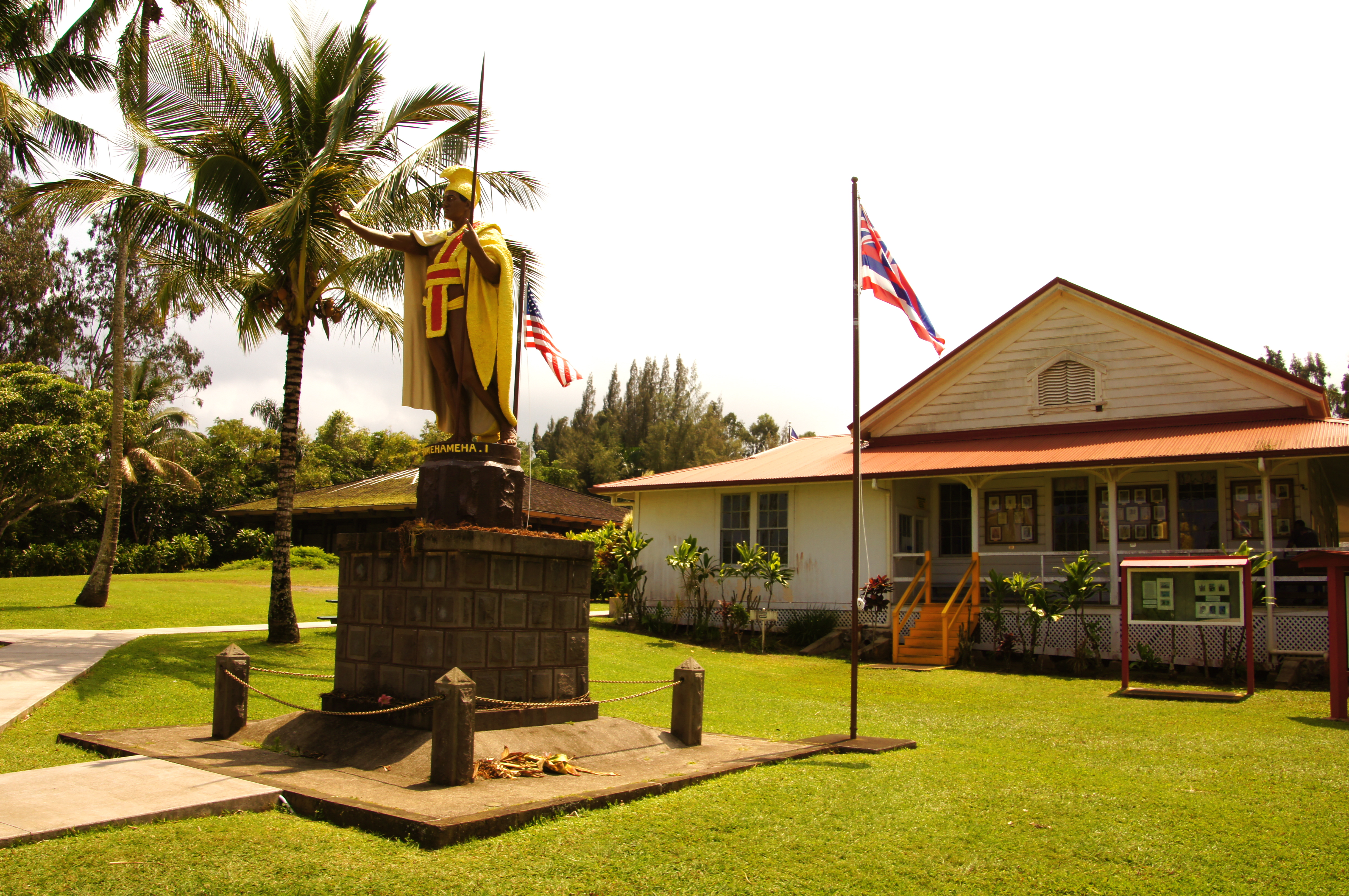 This is the original statue of King Kamehameha cast in Paris in the town of Kapa'au.